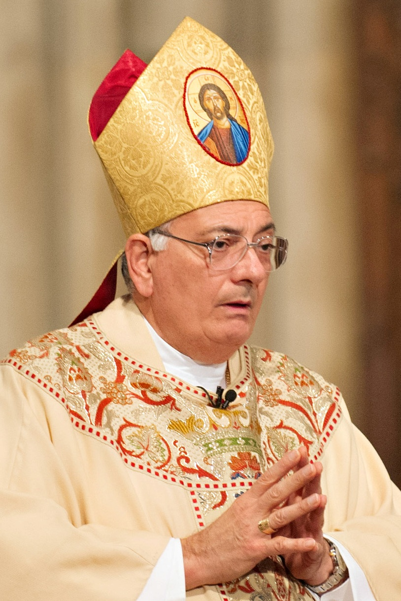 Bishop Nicholas DiMarzio, the seventh bishop of Brooklyn leads Catholic Mass at the St. Patrick's Cathedral prior to the 68th Annual Columbus Day Parade in New York on Oct. 8, 2012. The parade was organized by the Columbus Citizens Foundation. (U.S. Army Photo by Staff Sgt. Teddy Wade/Released)